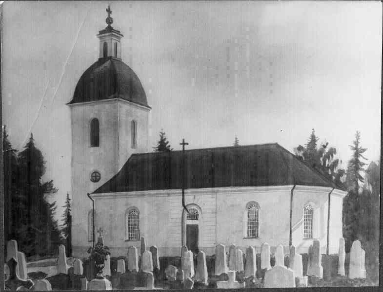 Blckstads church